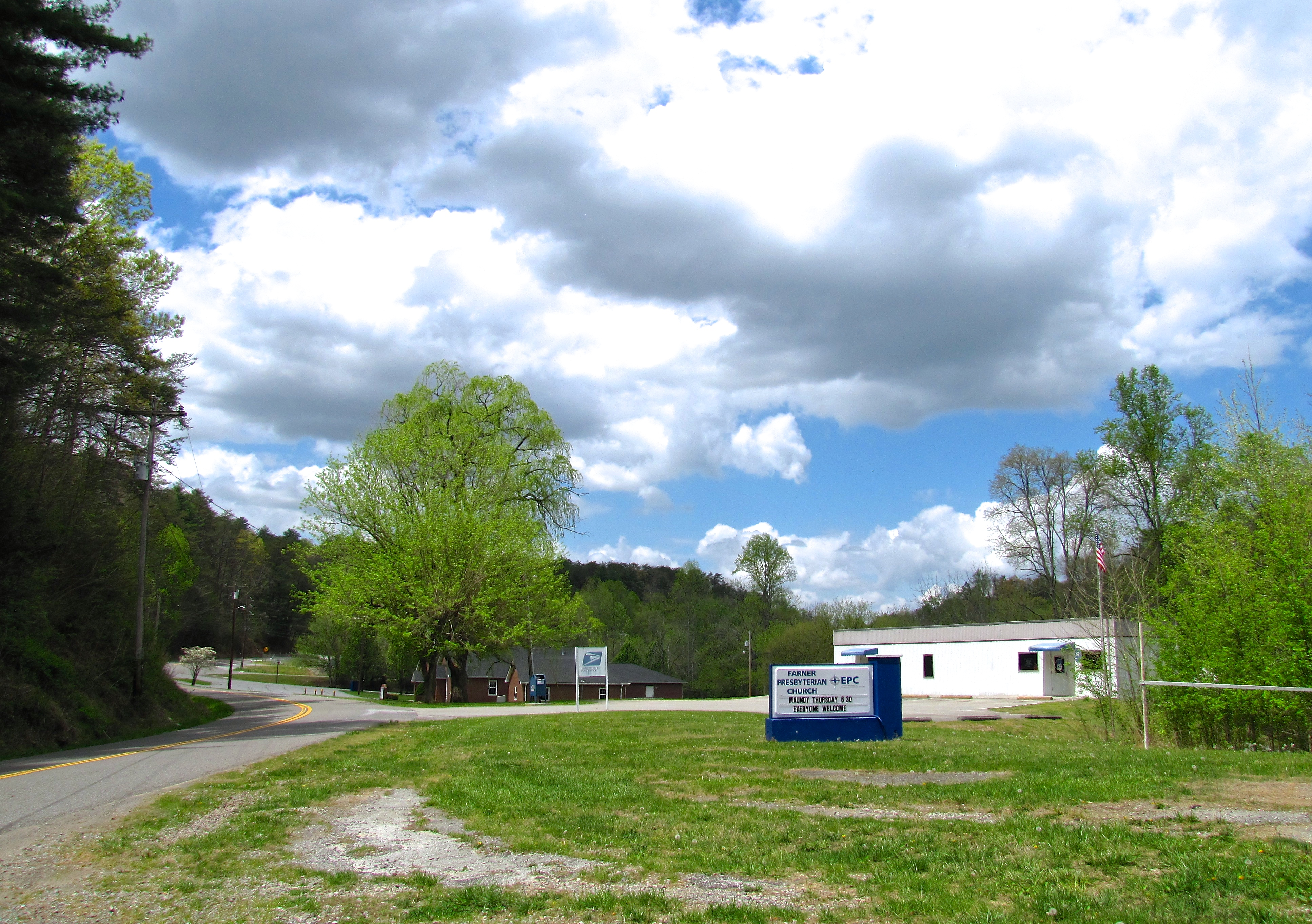 Post office and Farner Presbyterian Church in the community of Farner in Polk County, Tennessee, United States. Underwood Drive is on the left.